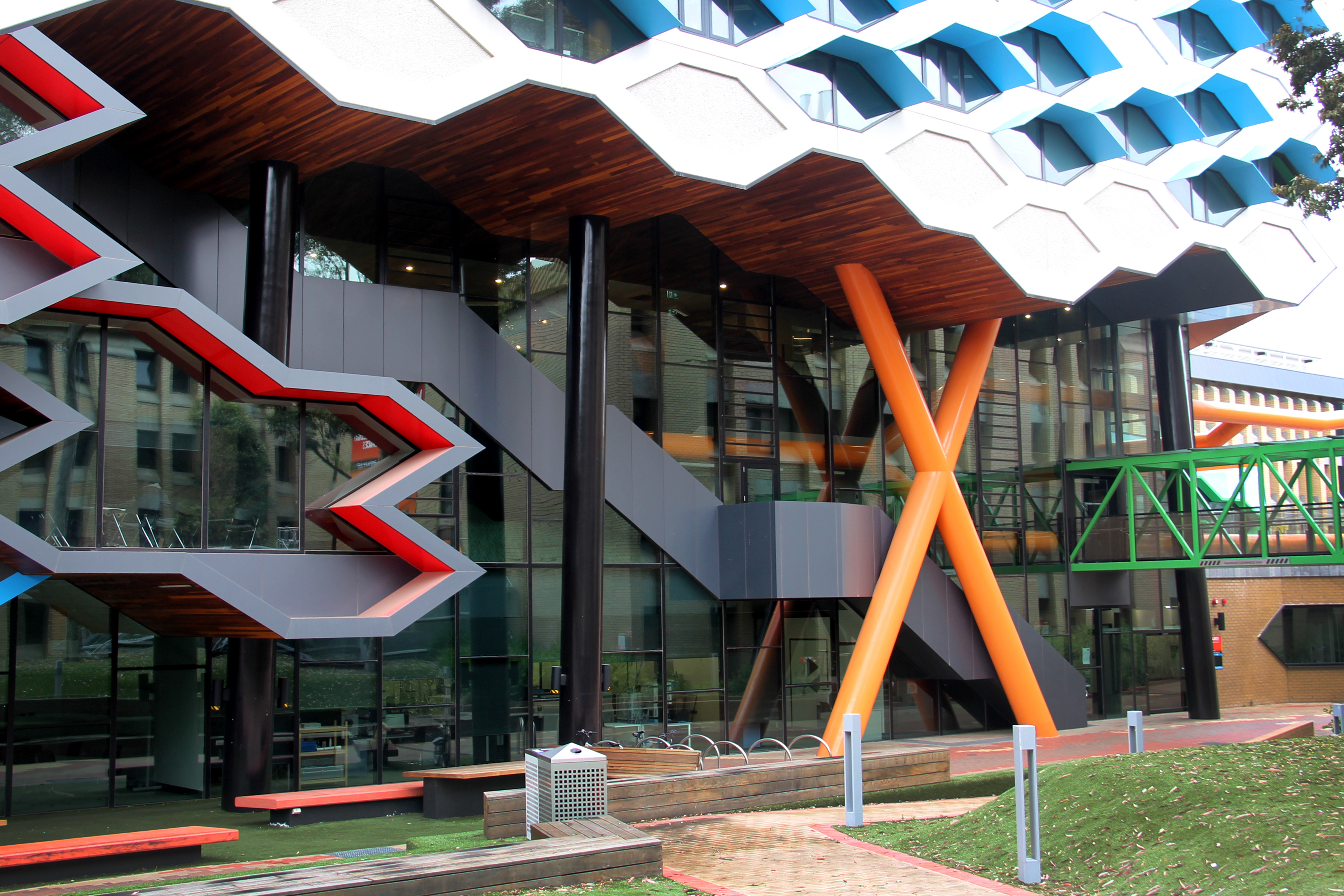 X and Y chromosomes are a feature within the architecture of the La Trobe Institute for Molecular Science LIMS1 building